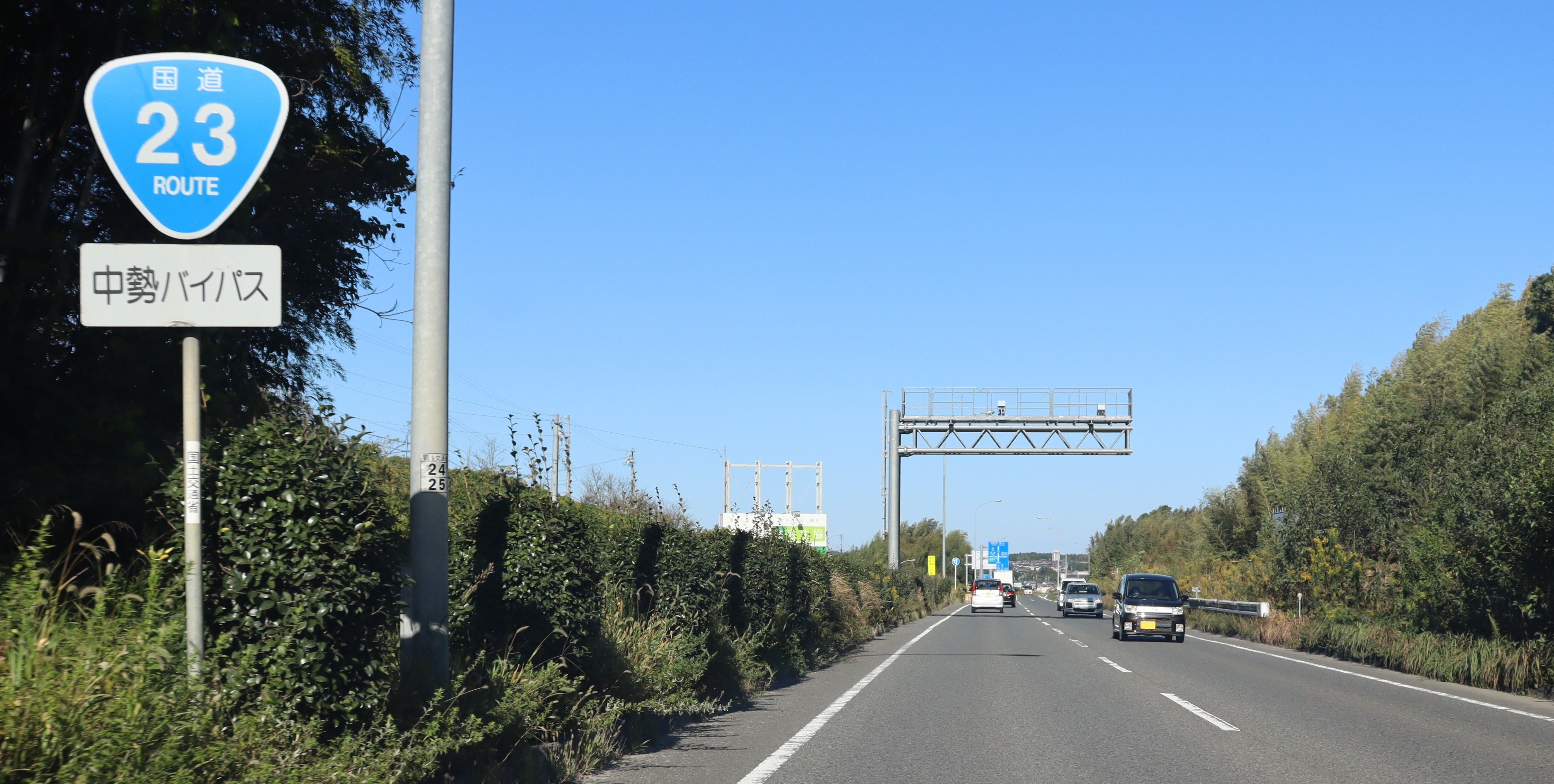 Chusei Bypass of Route 23 in Tsu, Mie Prefecture, Japan.